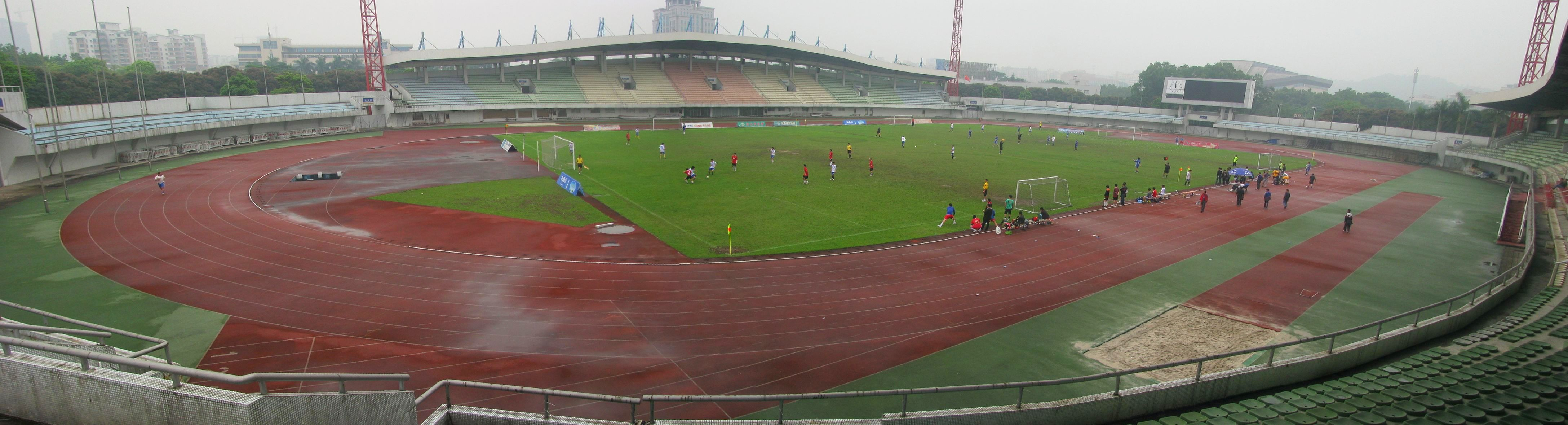 The Zhongshan Sports Center Stadium in Dong District, Zhongshan, Guangdong, China.